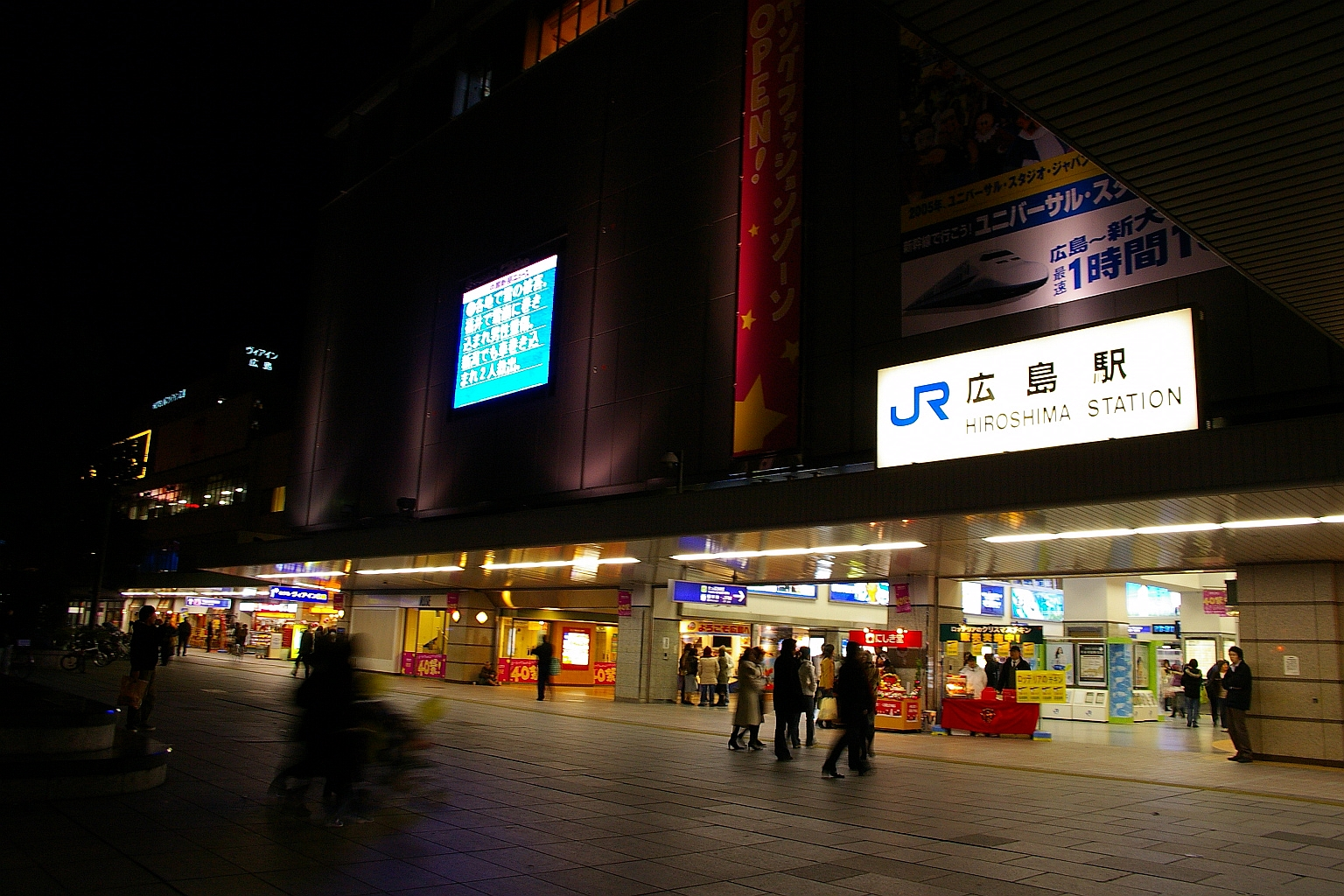 The south entrance of Hiroshima Station at night. Hiroshima, Hiroshima Prefecture, Japan.